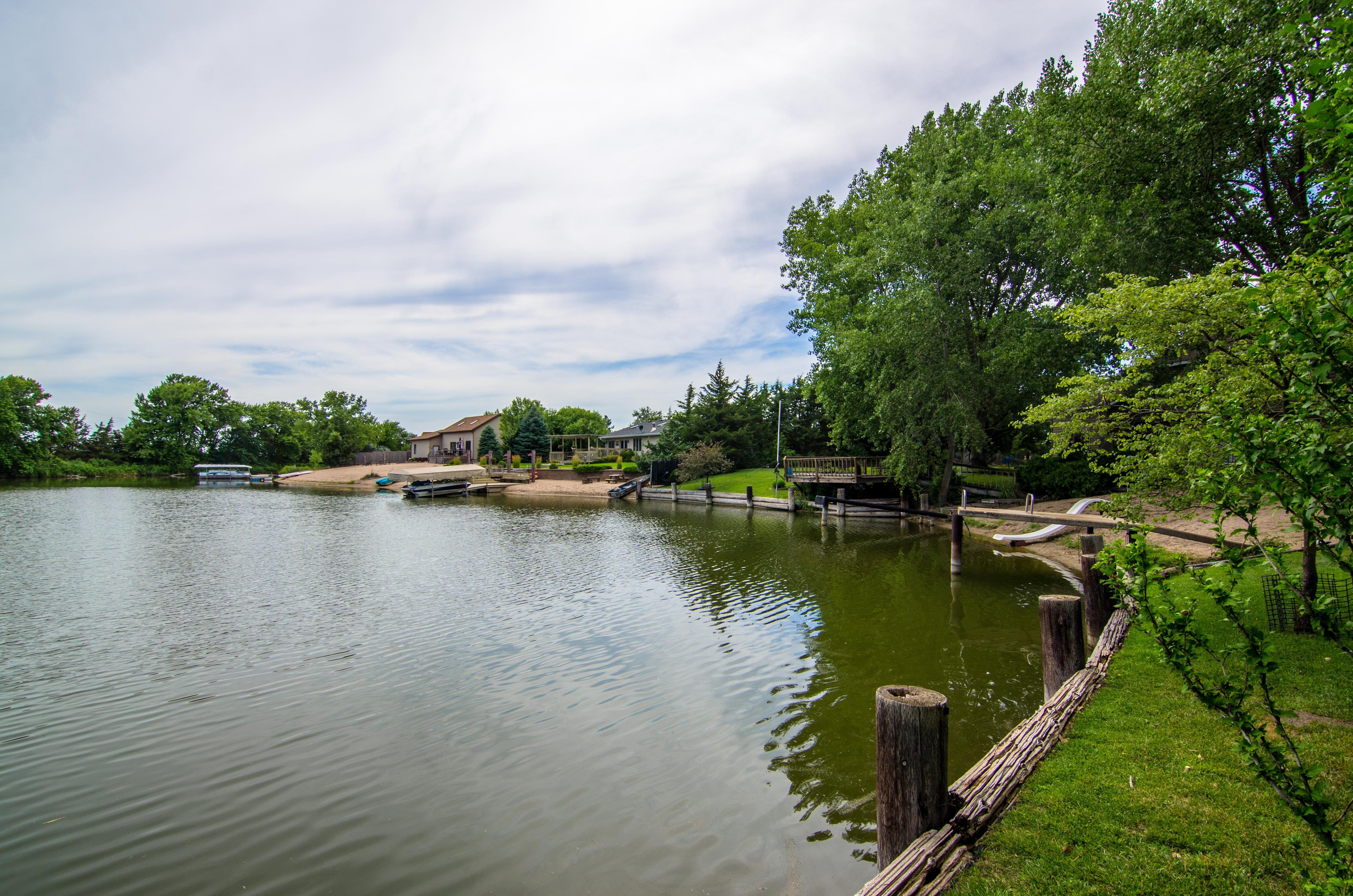 Overland near the Platte River